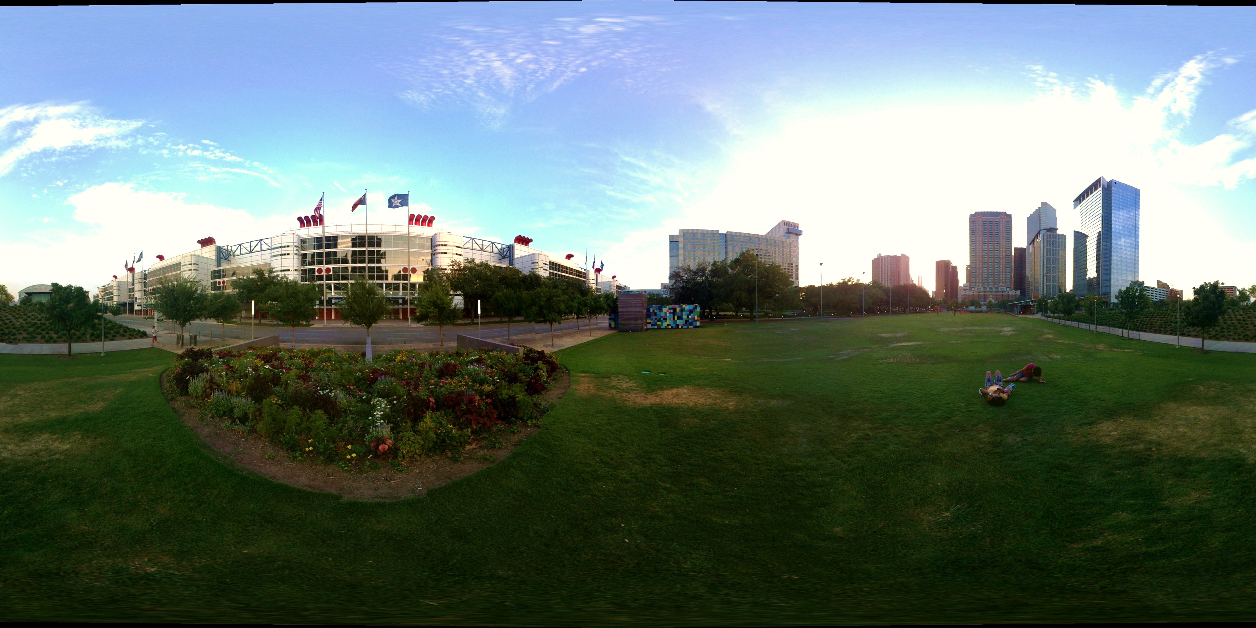 Panoramic View of Discovery Green park in Houston